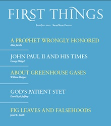 First Things cover